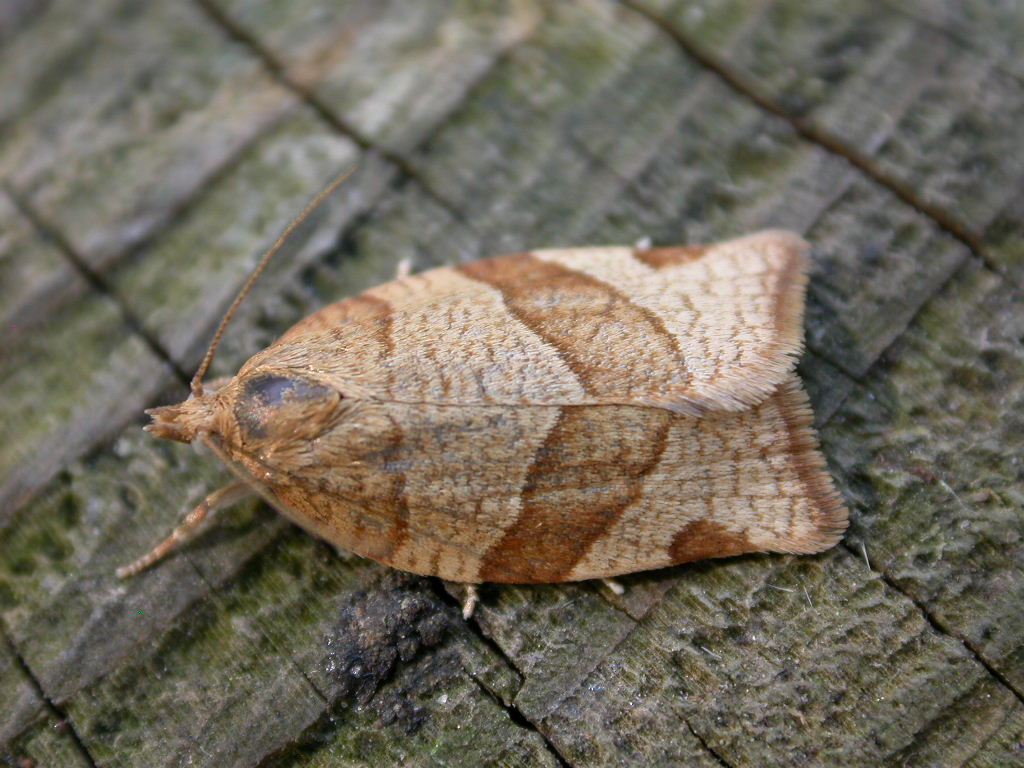 Pandemis cerasana, to MV light, Hellerup, Denmark, 1 July 2005